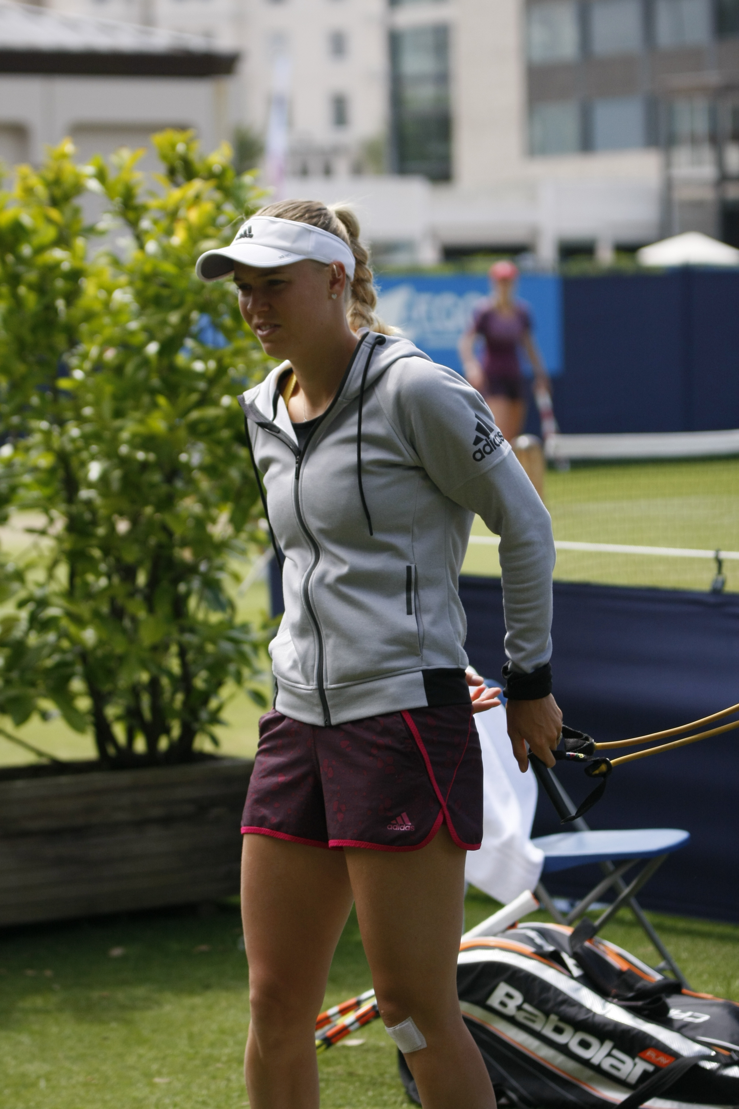 Aegon International Tennis, Devonshire Park, Eastbourne June 2015